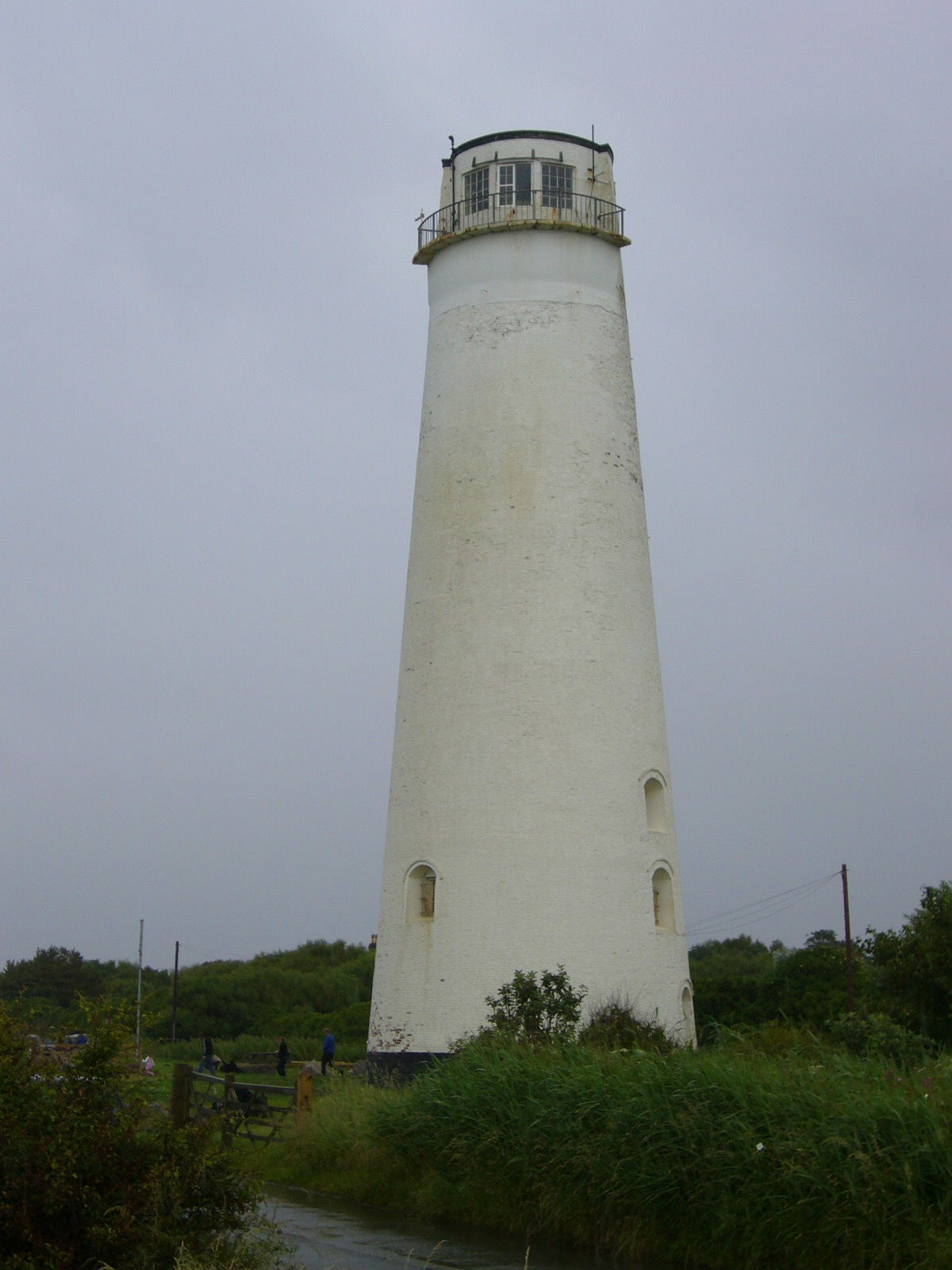 Bidston Lighthouse which provided a line to navigators when viewed with Leasowe Lighthouse Leasowe Lighthouse at grid reference SJ 252 913 on the Wirral